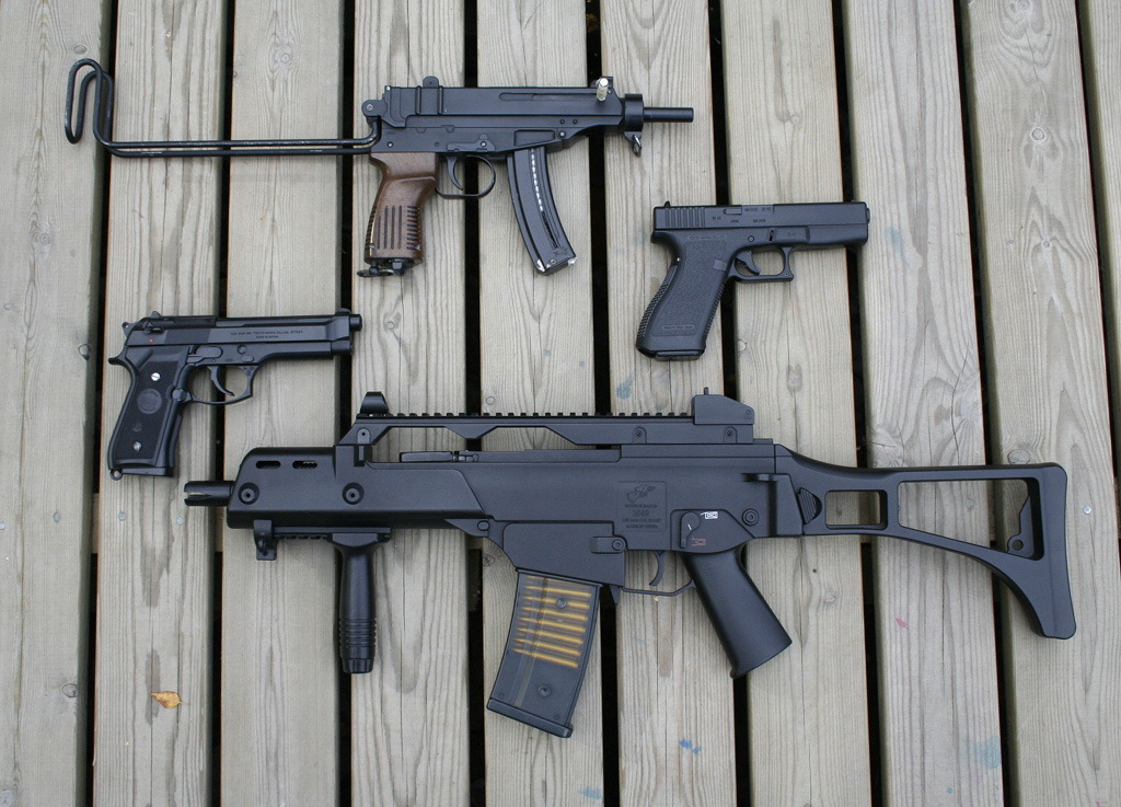 Airsoft guns: Scorpion Vz. 61, Glock 17, M92, G36C